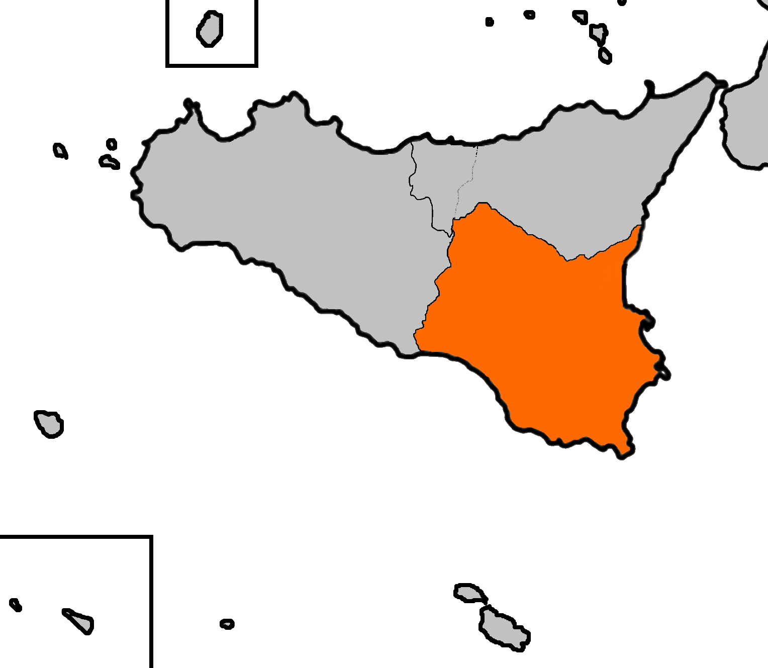 Localisation map of the Val di Noto around the year 1808.